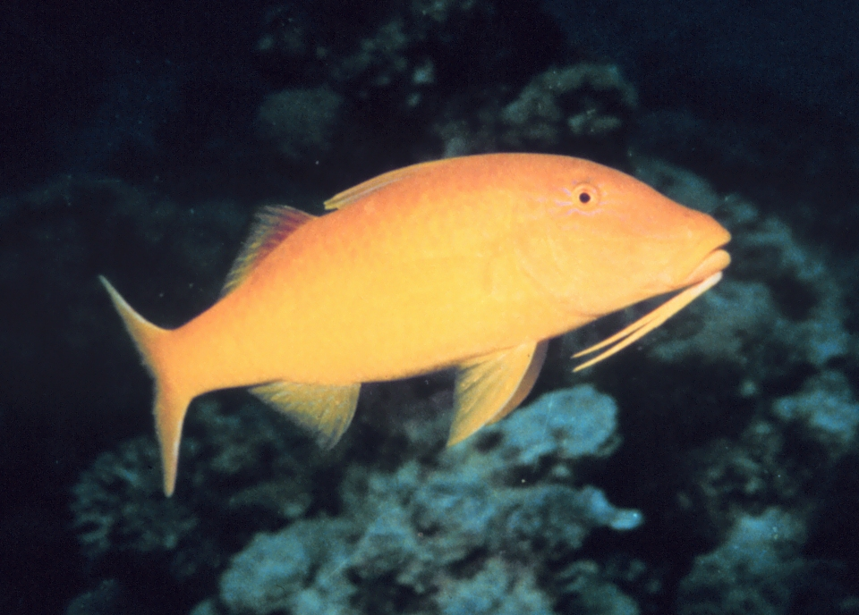 Yellow goatfish - Parupeneus cyclostomos Syn. Parupeneus cyclostomus Image ID: reef2021, NOAA's Coral Kingdom Collection Location: Gulf of Aqaba, Red Sea